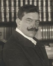 Rudolf Krzyzanowski (1859-1911), was a Austrian conductor and compositor.